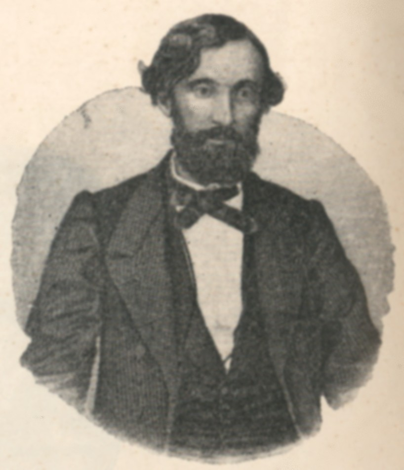 Bartolomé Mitre, (June 26, 1821 – January 19, 1906) was an Argentine statesman, military figure, and author. He was the President of Argentina from 1862 to 1868.